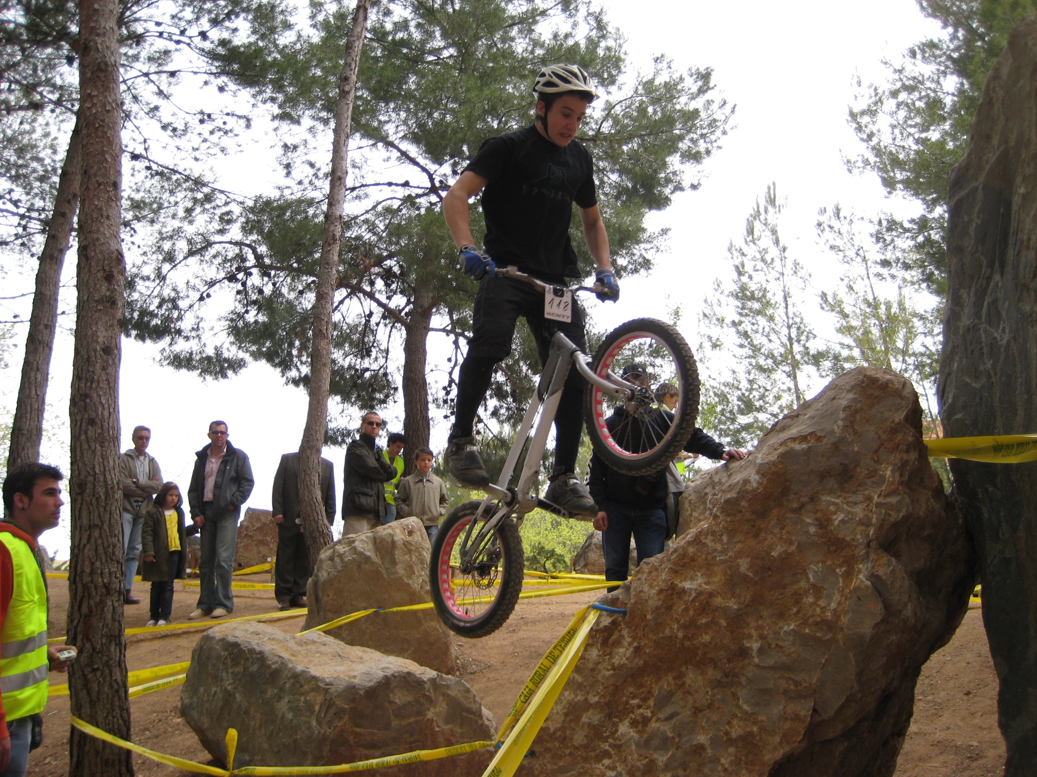 Spanish Biketrial Championship (Teruel, 2008)